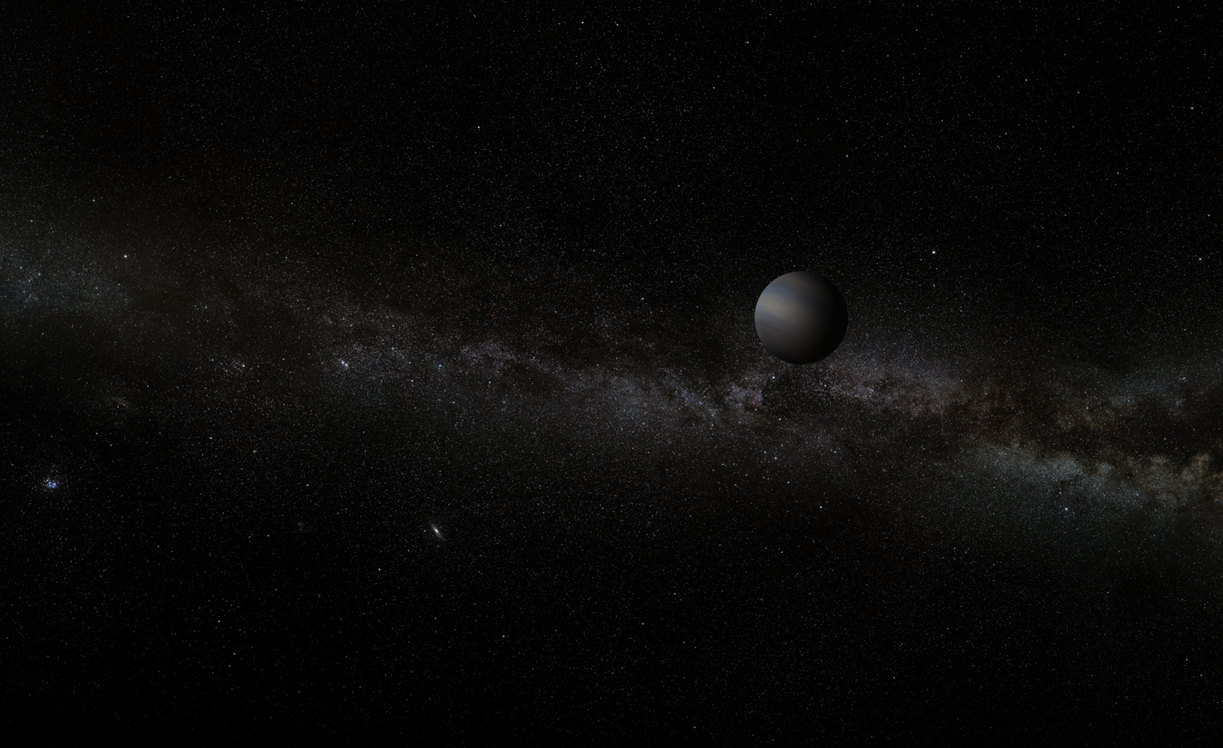 Rogue Planet - Free Floating Planet: Artistic Representation